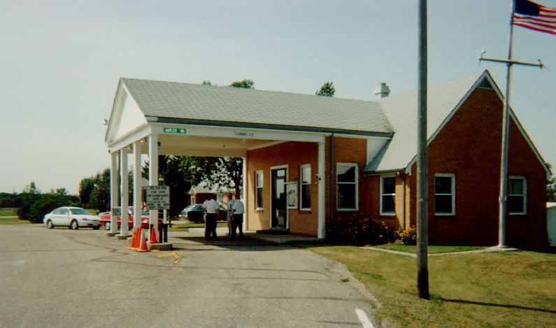 Antler, ND port of entry